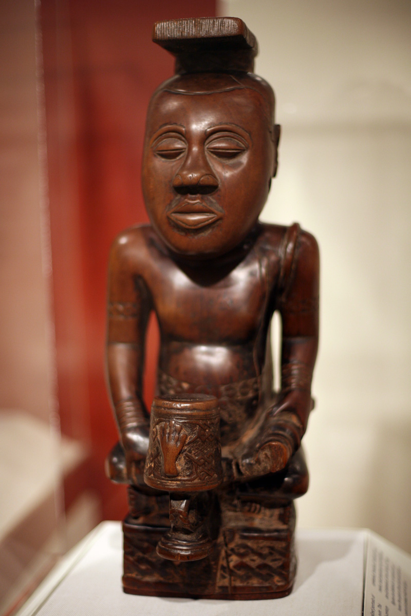 Bushoong Kuba. Ndop Portrait of King Mishe miShyaang maMbul, 18th century. Wood (crossopterix febrifuga), 19 1/2 x 7 5/8 x 8 5/8 in. (49.5 x 19.4 x 21.9 cm). Brooklyn Museum, Purchased with funds given by Mr. and Mrs. Alastair B. Martin, Mrs. Donald M. Oenslager, Mr. and Mrs. Robert E. Blum, and the Mrs. Florence A. Blum Fund, 61.33.